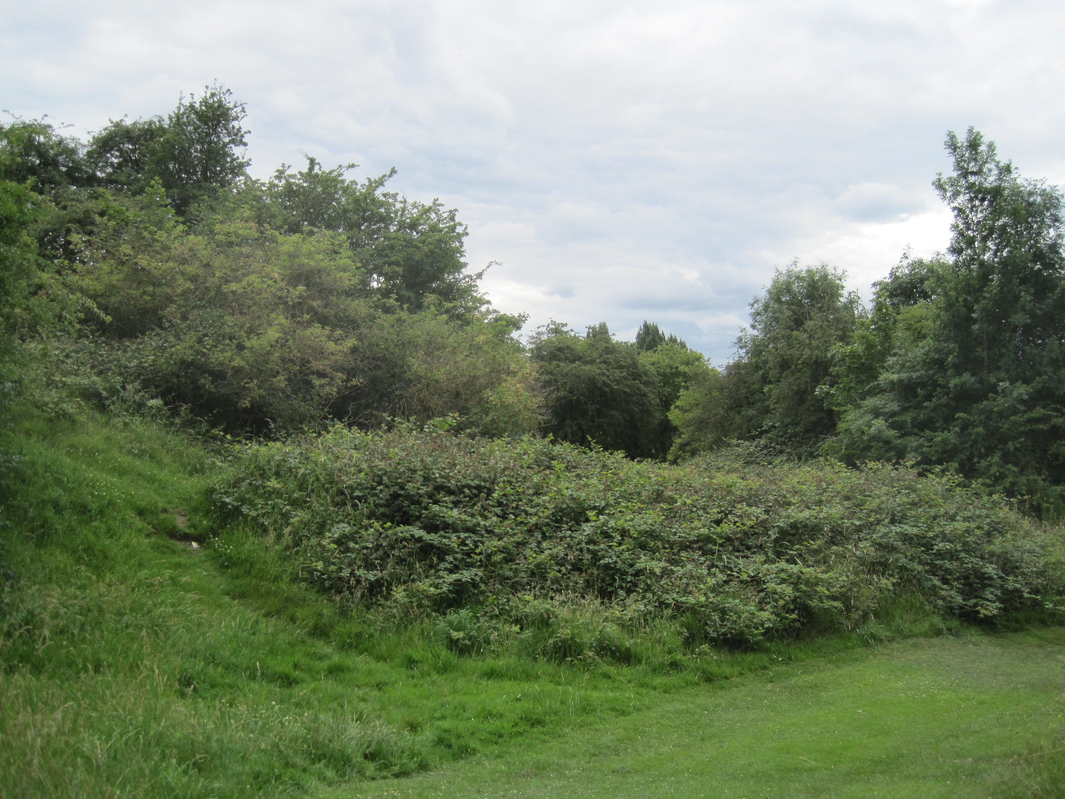 Swan Lane Open Space, Whetstone, Barnet, London